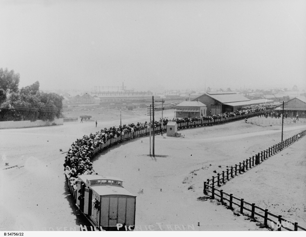 Broken Hill, Picnic train, 1907 Picnic train with open trucks conveying men, women and children to an annual picnic believed to be one being held by the Manchester Unity Lodges at Penrose Park Silverton. According to a researcher, seven years later this same train was attacked by two Turkish patriots.